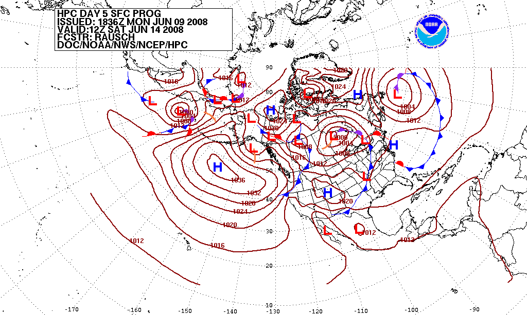 Day 5 forecast of surface pressure across North America as well as the Pacific and Atlantic oceans